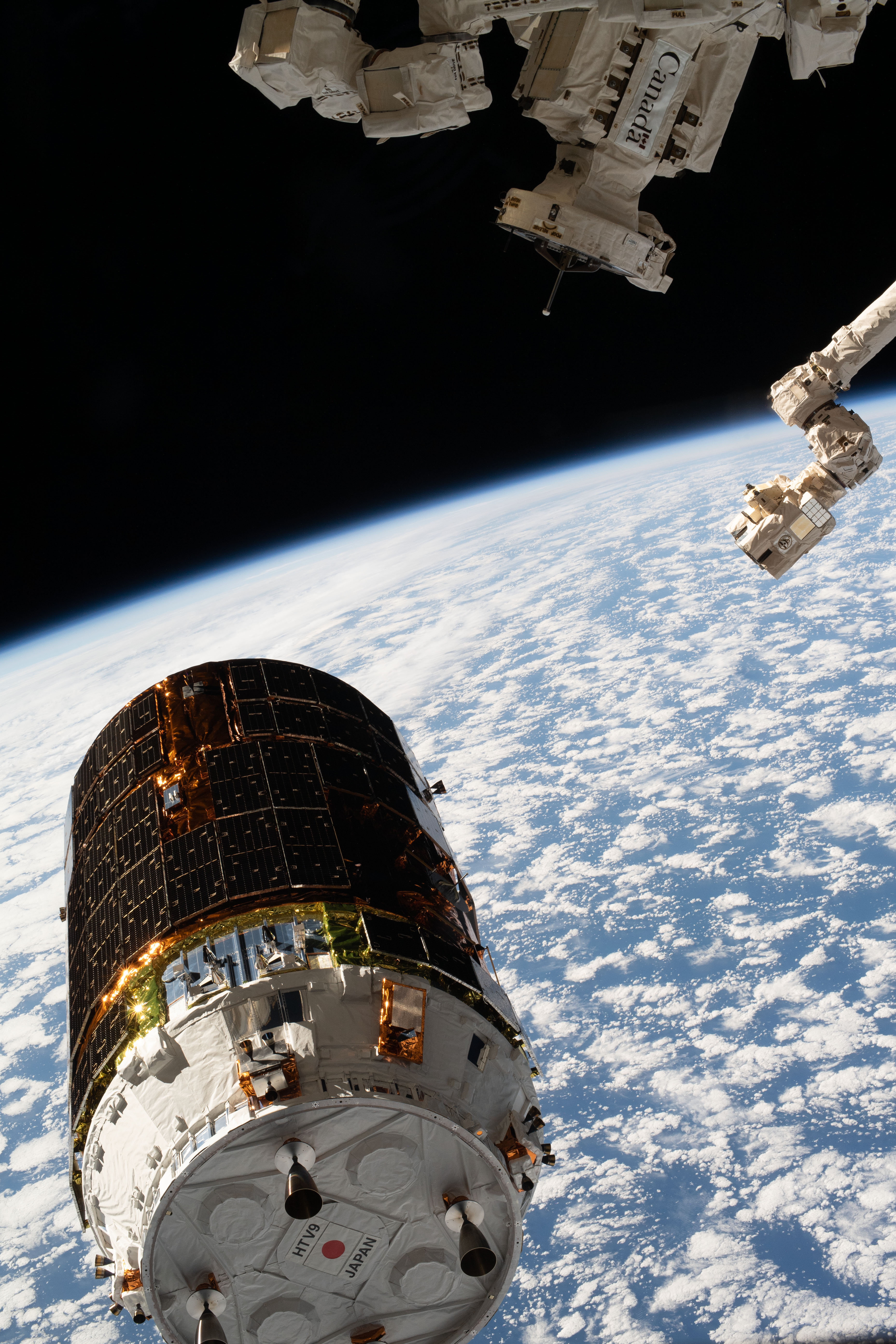 The H-II Transfer Vehicle-9 (HTV-9) from JAXA (Japan Aerospace Exploration Agency) is pictured moments before the Canadarm2 robotic arm (right) captured the resupply ship. Expedition 63 Commander Chris Cassidy was at the robotics controls ready to command the Canadarm2 to reach out and grapple the HTV-9 that was carrying over four tons of food, supplies and experiments to replenish the International Space Station crew.